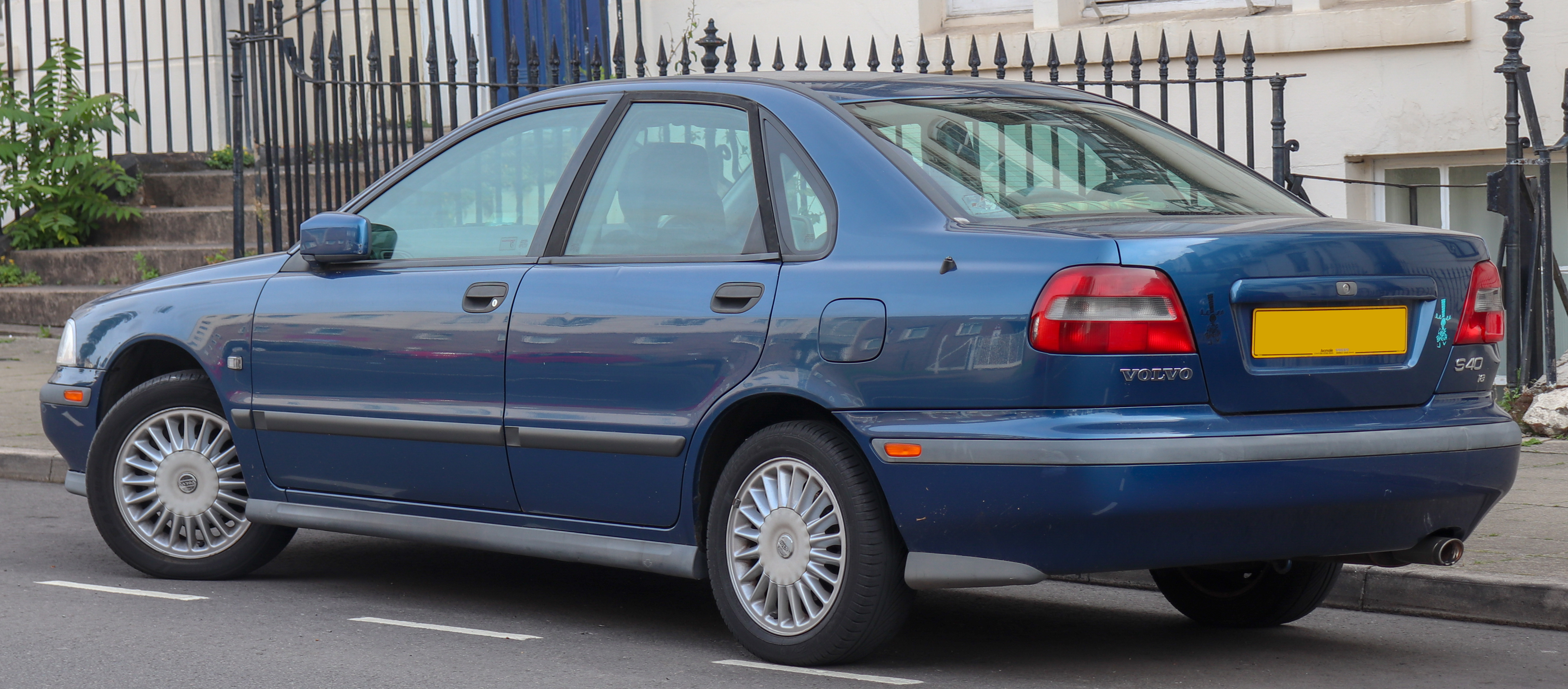 1997 Volvo S40 1.8 Rear Taken in Leamington Spa